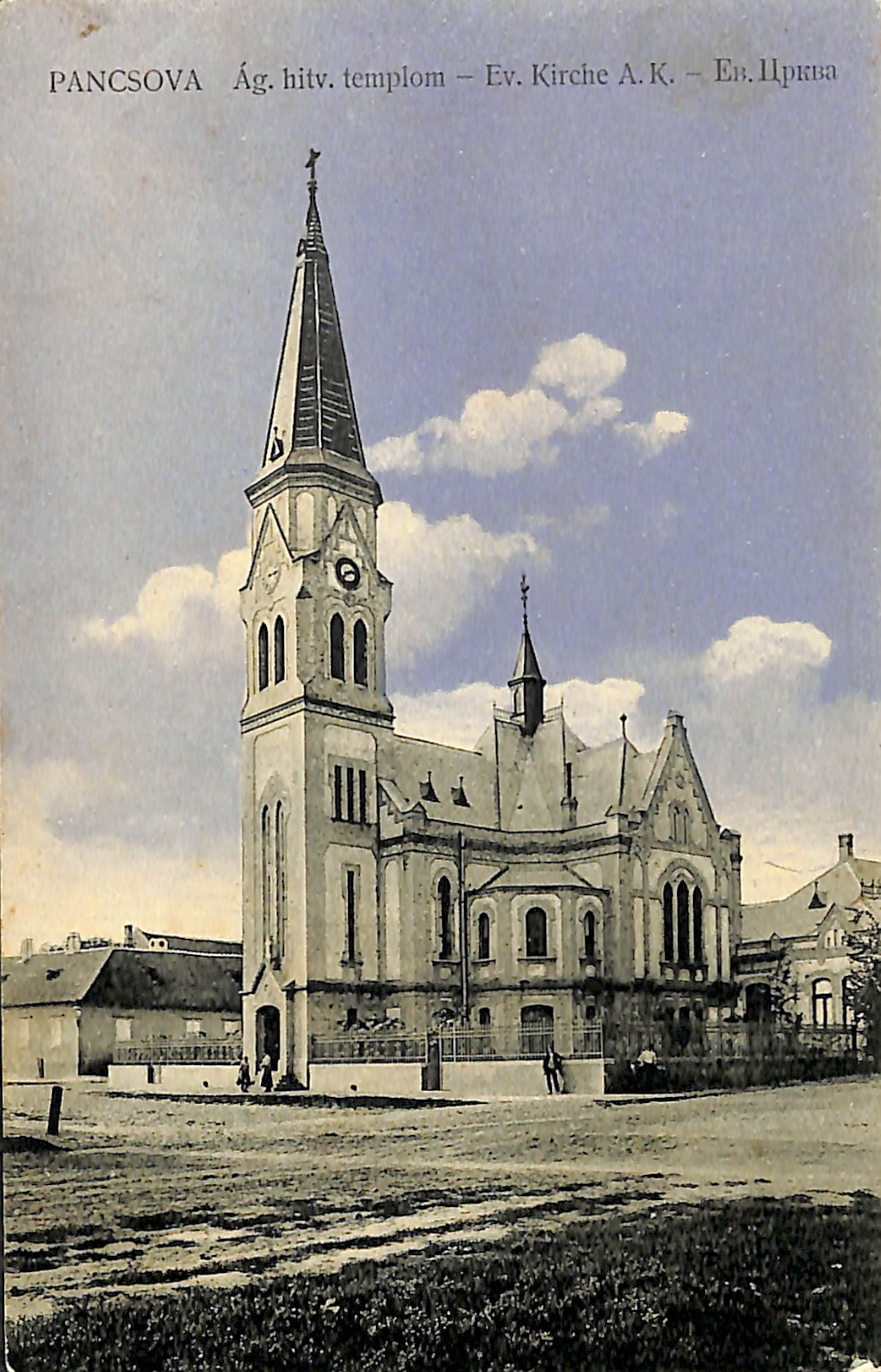 Evangelical Church in Pančevo